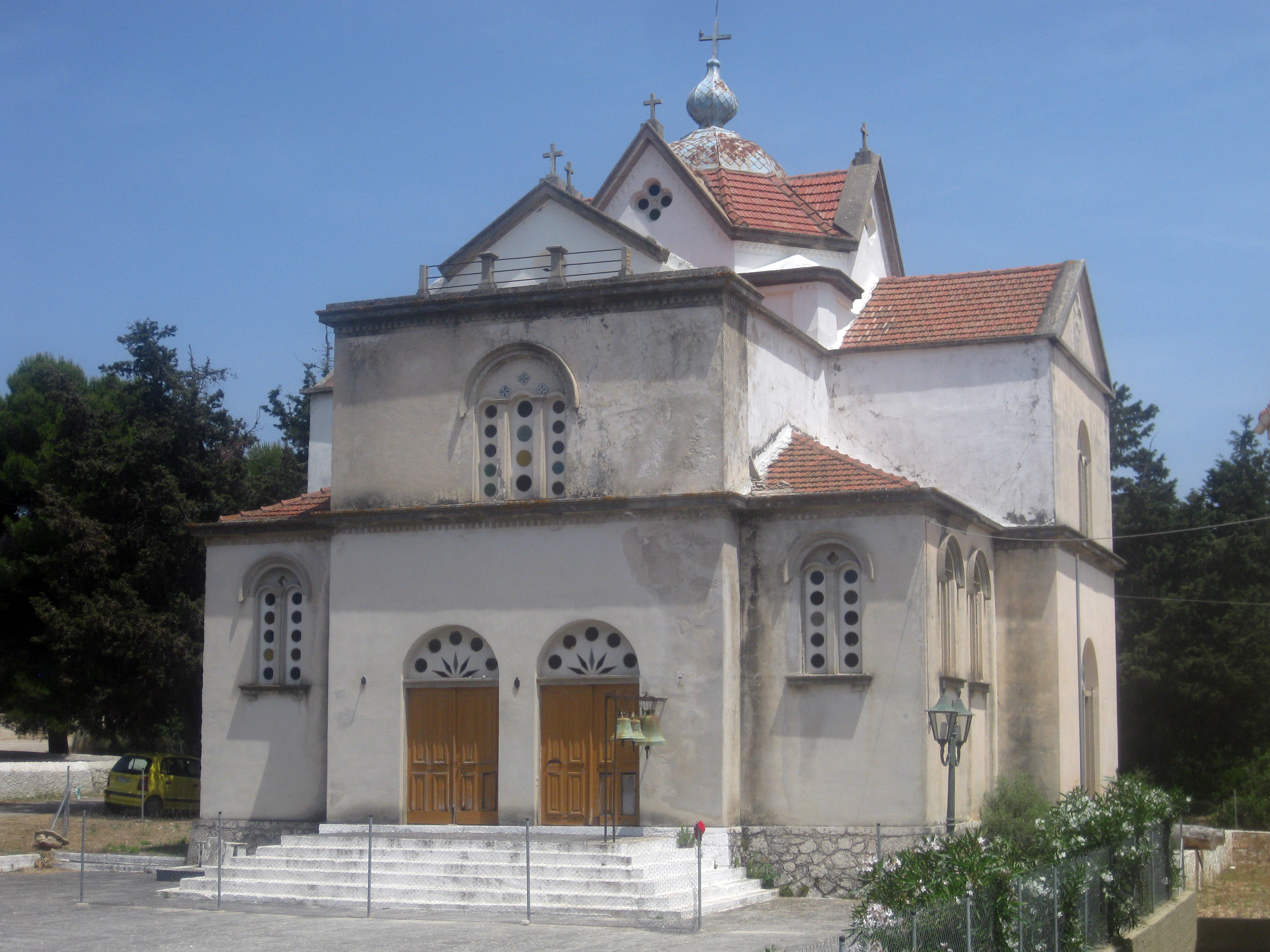 Church in Russian style in Antipata